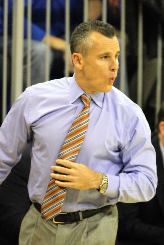 Florida Gators vs William & Mary Basketball 2014